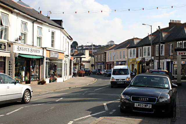 Fore Street, Copperhouse This is the major shopping centre in Hayle and is at the centre of the urban area which grew up around the Copperhouse smelting works.